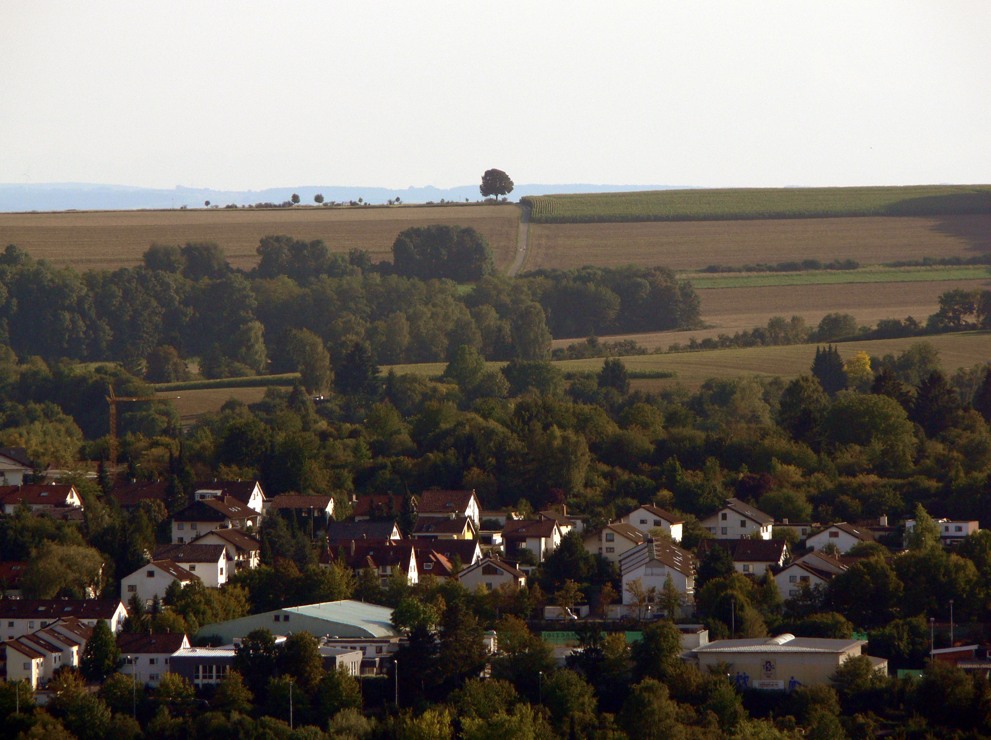 Tilia near Ulm that was planted by Gerd Walter. GIMP was used to correct white balance and remove noise.